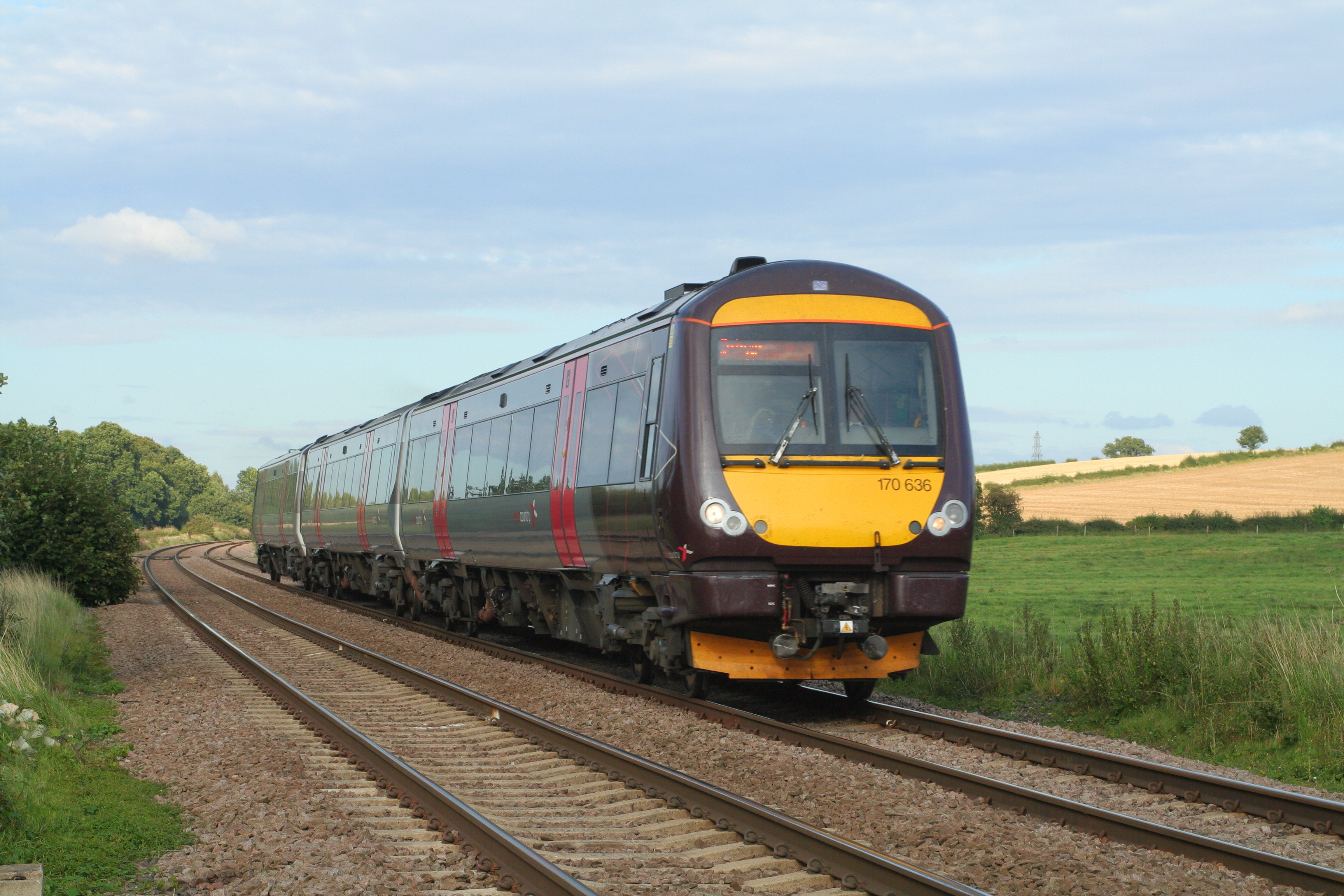 170636 heading westbound towards Leicester